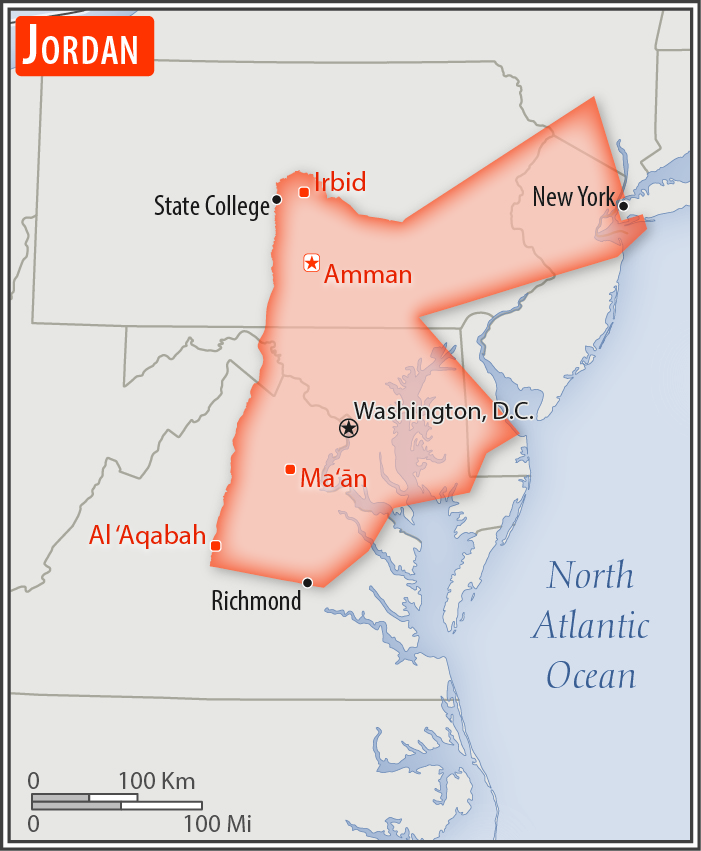 Comparison of the areas of two country. The area of Jordan with biggest cities (red) overlay the area of the United States of America (gray background).